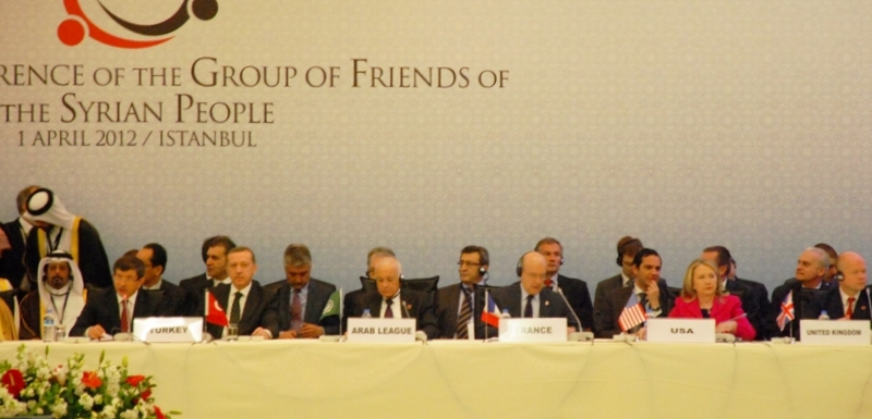 U.S. Secretary of State Hillary Rodham Clinton attends the Second Conference of the Group of Friends of the Syrian People at the Istanbul Congress Center in Istanbul, Turkey, April 1, 2012. [State Department photo/ Public Domain]